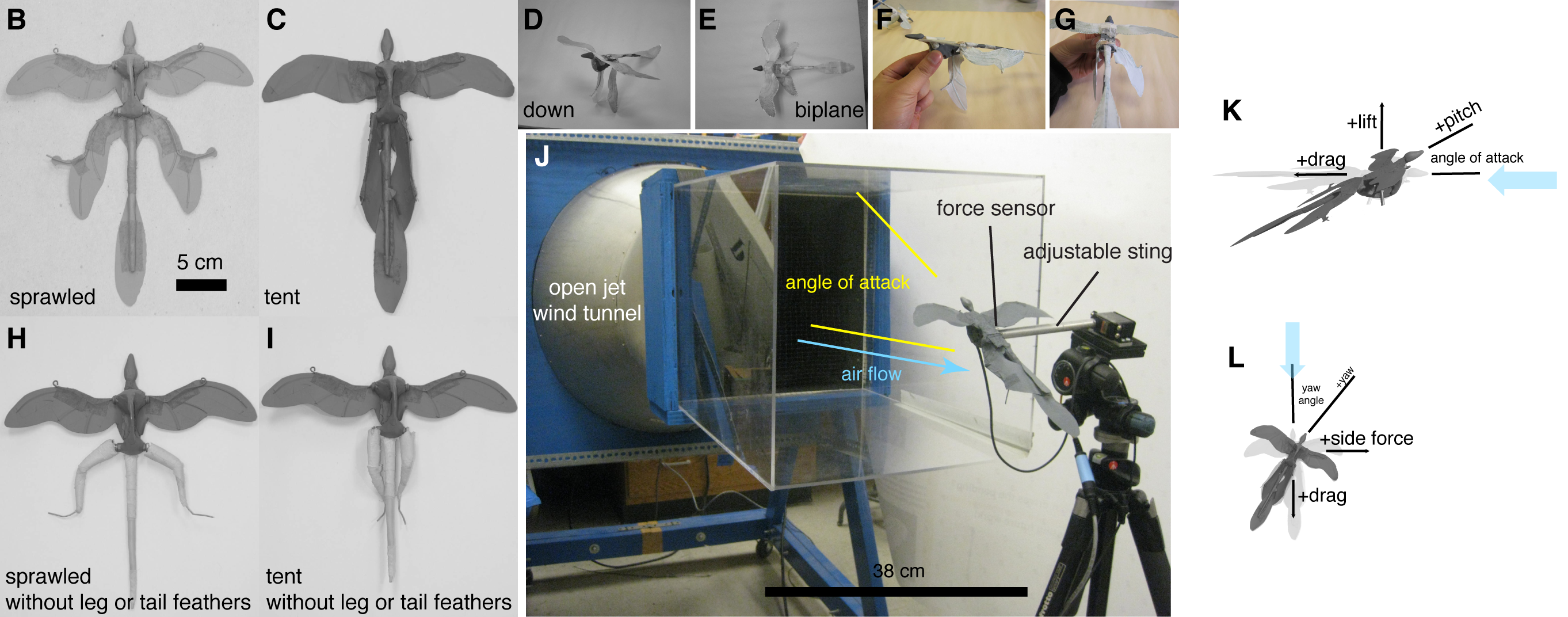 Microraptor gui from [2], a dromaeosaur from the Cretaceous Jiufotang Formation of Liaoning, China; physical models, and sign conventions. B-J, Physical models of M. gui, scale model wingspan 20 cm, snout-vent-length 8 cm. Reconstruction postures, B-I, used for constructing physical models: B, sprawled, after [2]; C, tent, after [34], [58]; D, legs-down, after [34]; E, biplane, after [32]. F-I additional manipulations: F, asymmetric leg posture with 9090 leg mismatch ( arabesque ); G, example asymmetric leg posture with 45 dihedral on one leg ( dégagé ), H, sprawled without leg or tail feathers; I, tent without leg or tail feathers. J, test setup; K, sign conventions, rotation angles, and definitions for model testing.